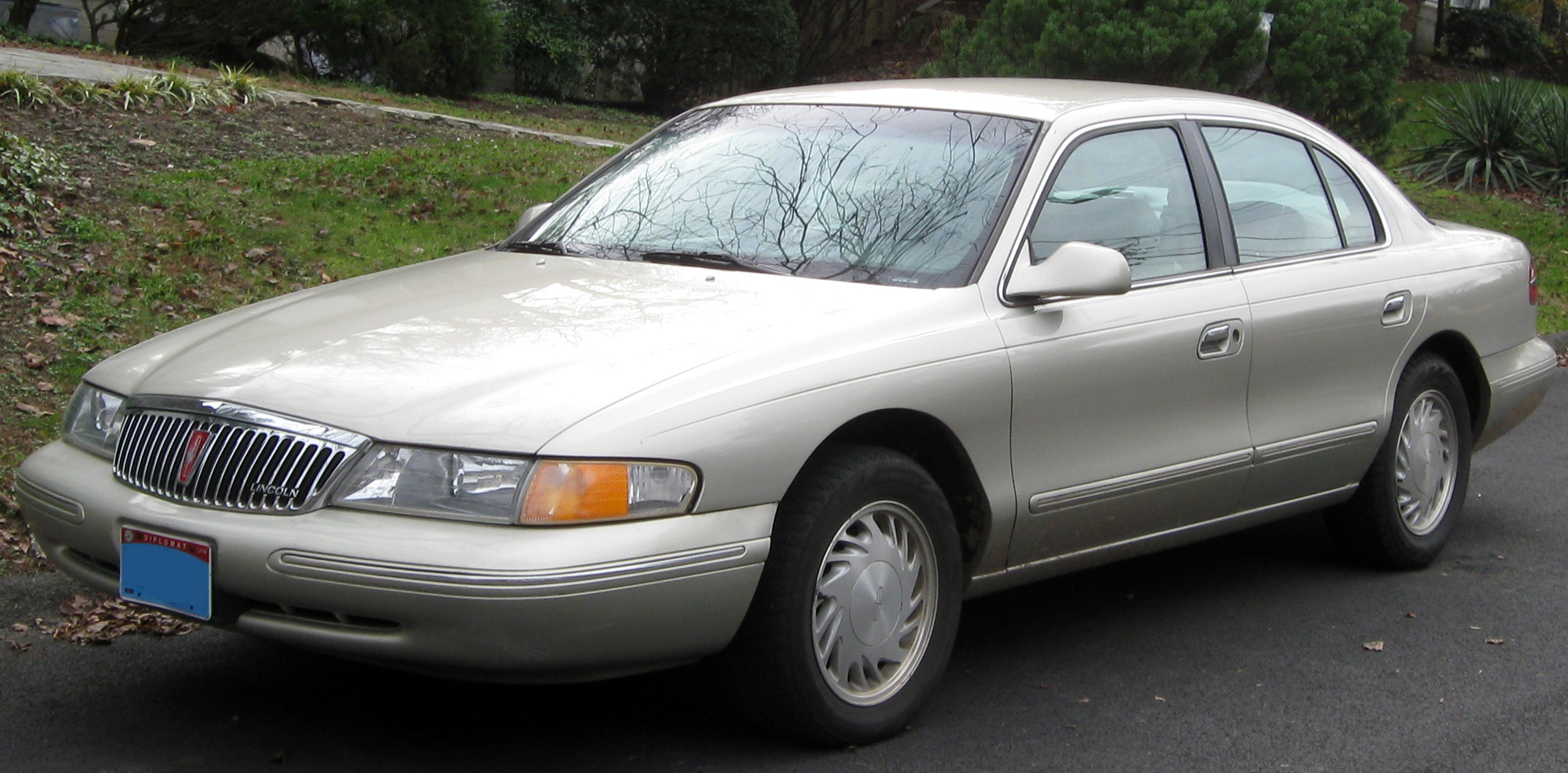 1995-1997 Lincoln Continental photographed in Washington, D.C., USA.